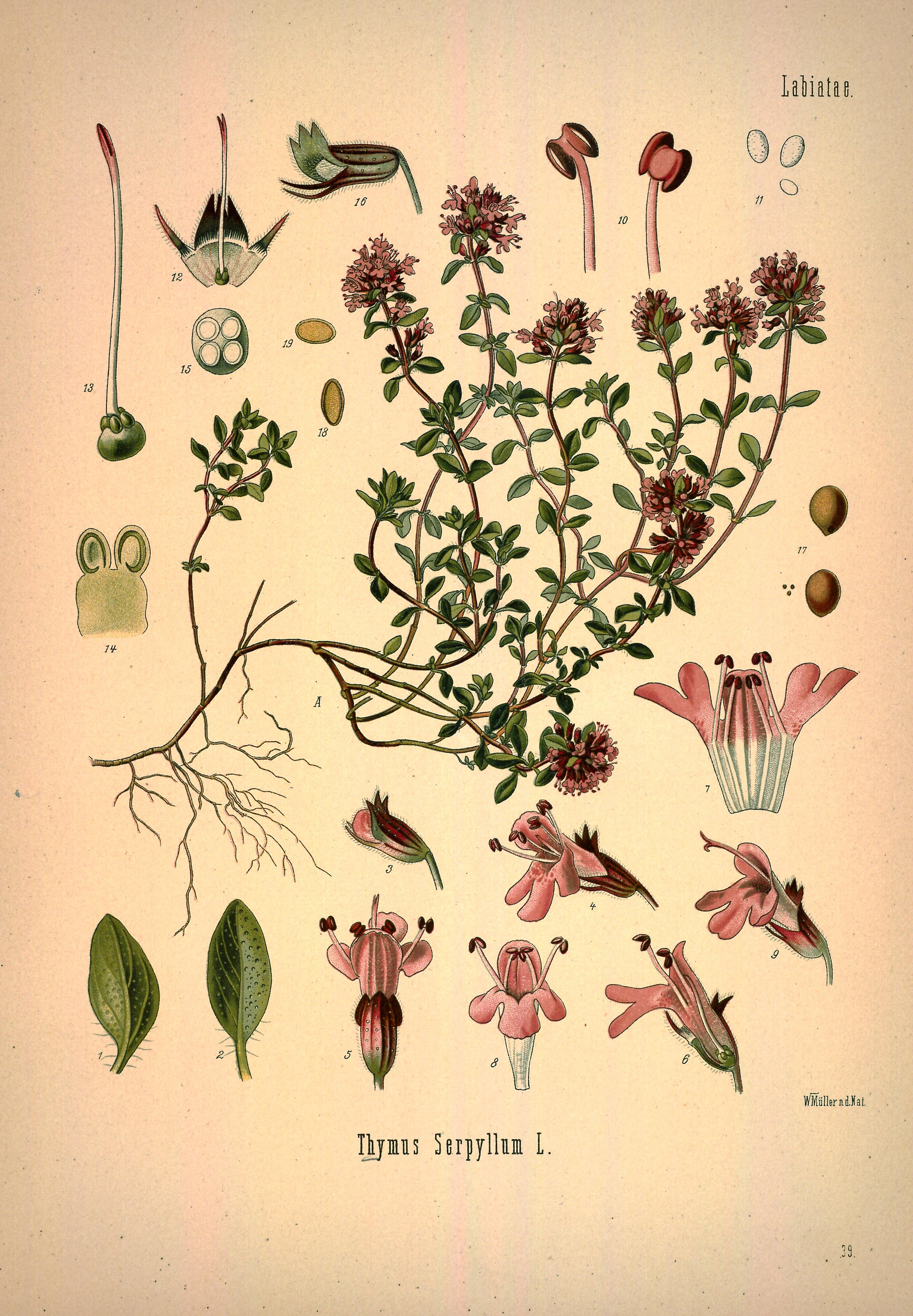 Köhler's Medizinal-Pflanzen in naturgetreuen Abbildungen mit kurz erläuterndem Texte : Atlas zur Pharmacopoea germanica, austriaca, belgica, danica, helvetica, hungarica, rossica, suecica, Neerlandica, British pharmacopoeia, zum Codex medicamentarius, sowie zur Pharmacopoeia of the United States of America /